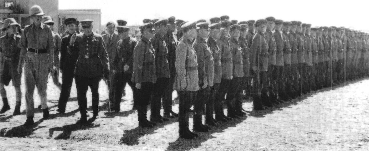 Maj. Gen. Vasily Novikov of the Caucasian Army (USSR,) and Brig. Gen. J. G. E. Tiarks of the 9th Armoured Brigade (UK,) inspect the troops, in course of preparations to the Joint Russo-British military parade in Tehran. Iran, September 1941.